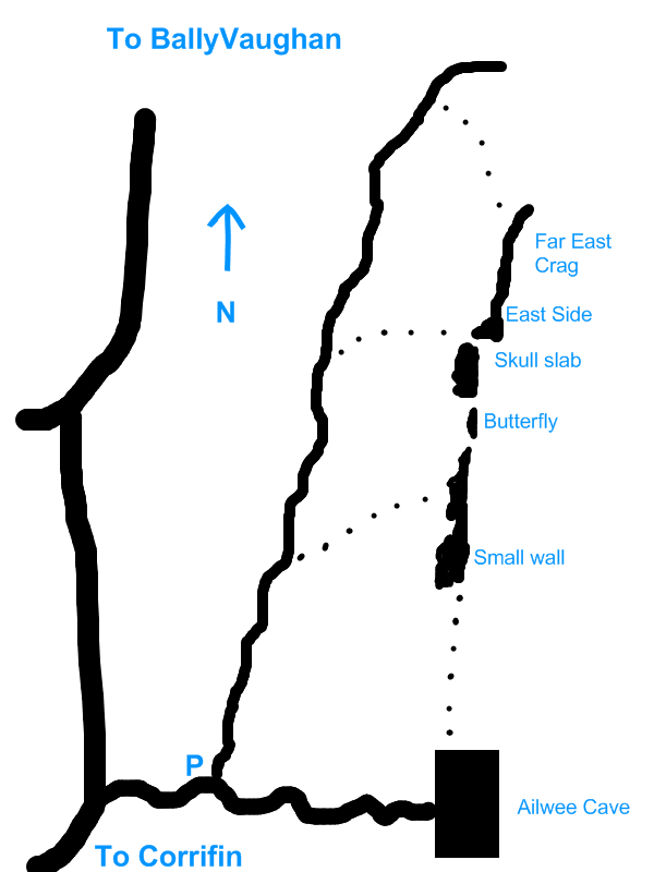 The layout of popular rock climbing venue Aill Na Cronain in The Burren, County Clare, Ireland; kept the same colourings and fonts as the layouts from my earlier diagrams on the crag so that people will remember them